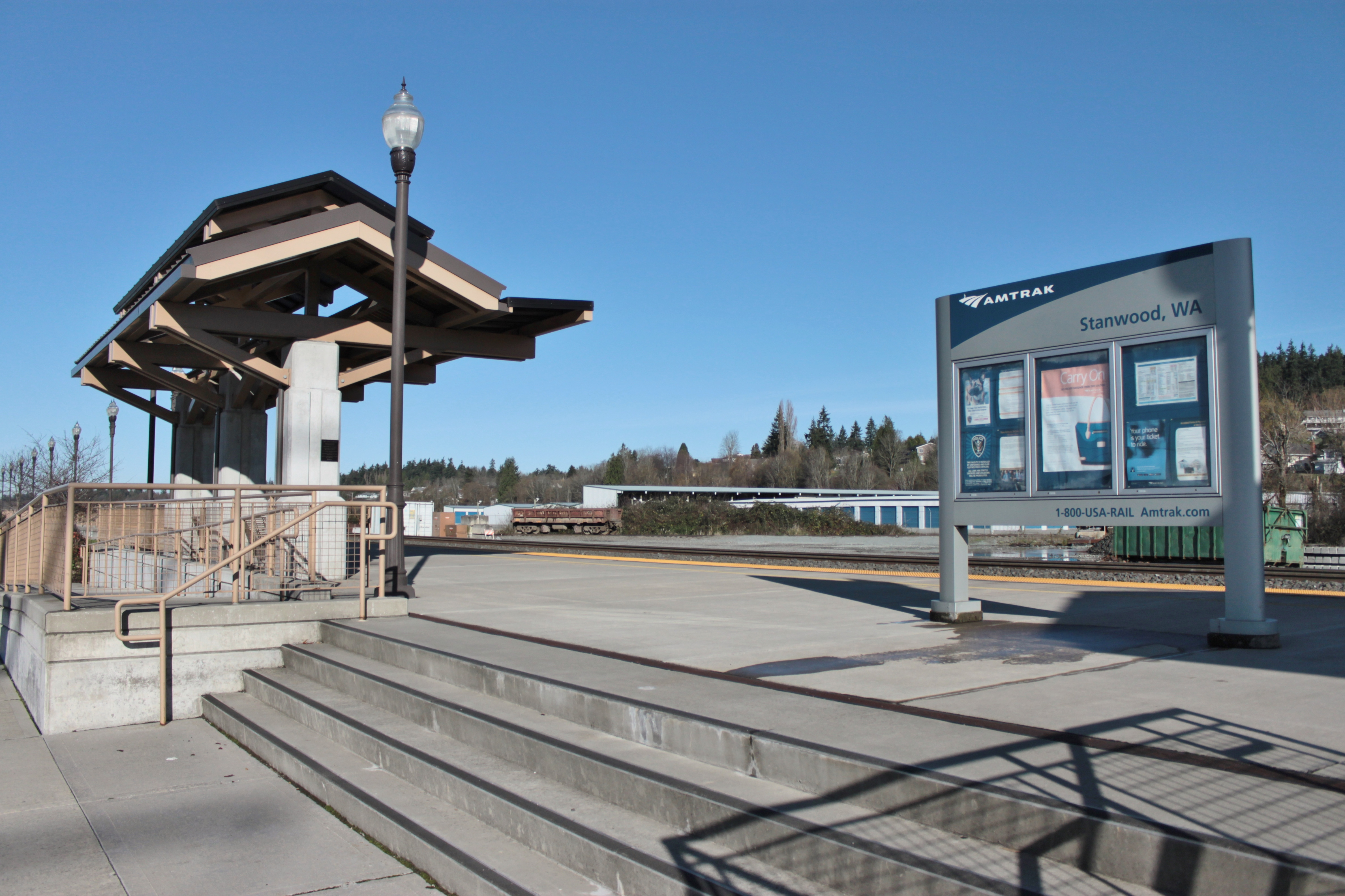 The information board and platform at Stanwood station, an Amtrak stop in Stanwood, Washington.